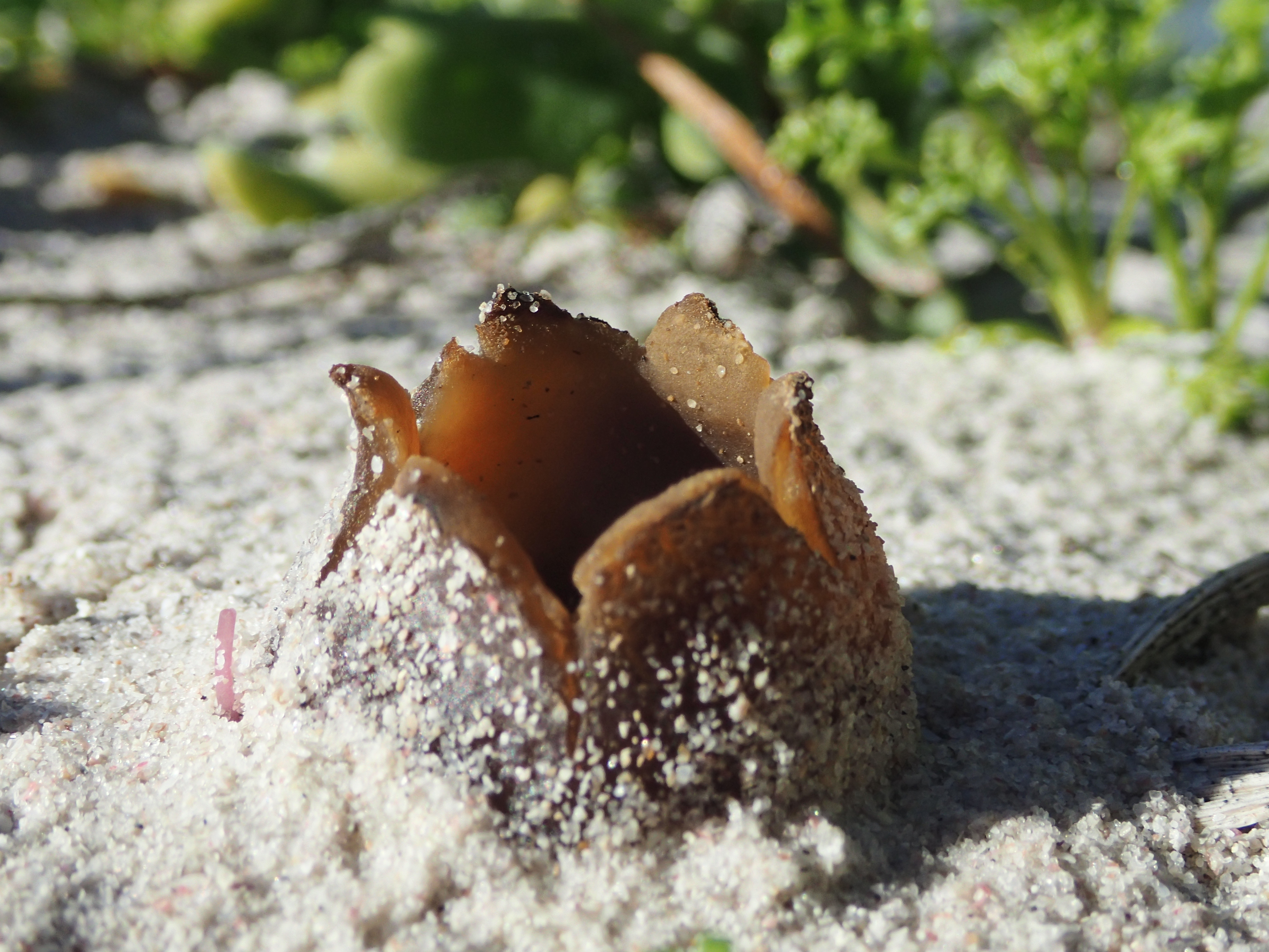 Dune Cup Peziza ammophila, in the dunes at Betty's Bay, SA